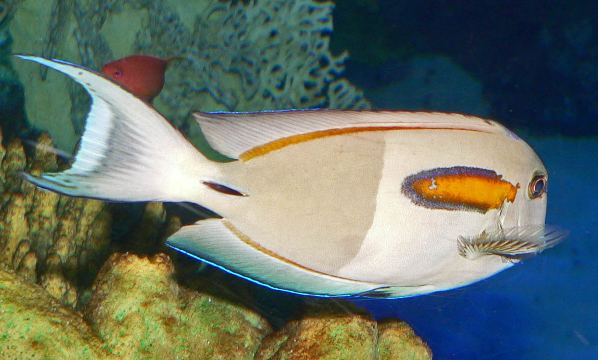 Photo of Acanthurus olivaceus (orange-shouldered tang) at the Vancouver Aquarium